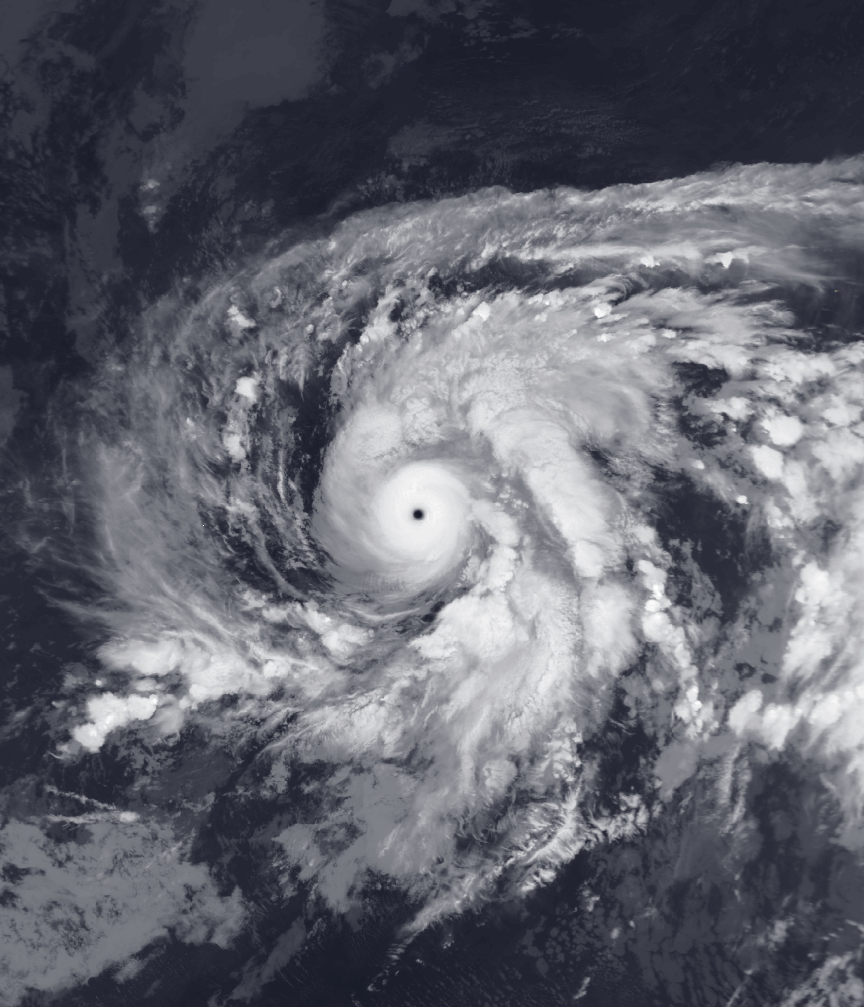 Hurricane Fernanda in the East Pacific at 09:55 UTC on July 15, 2017. At the time, it was a Category 4 hurricane.